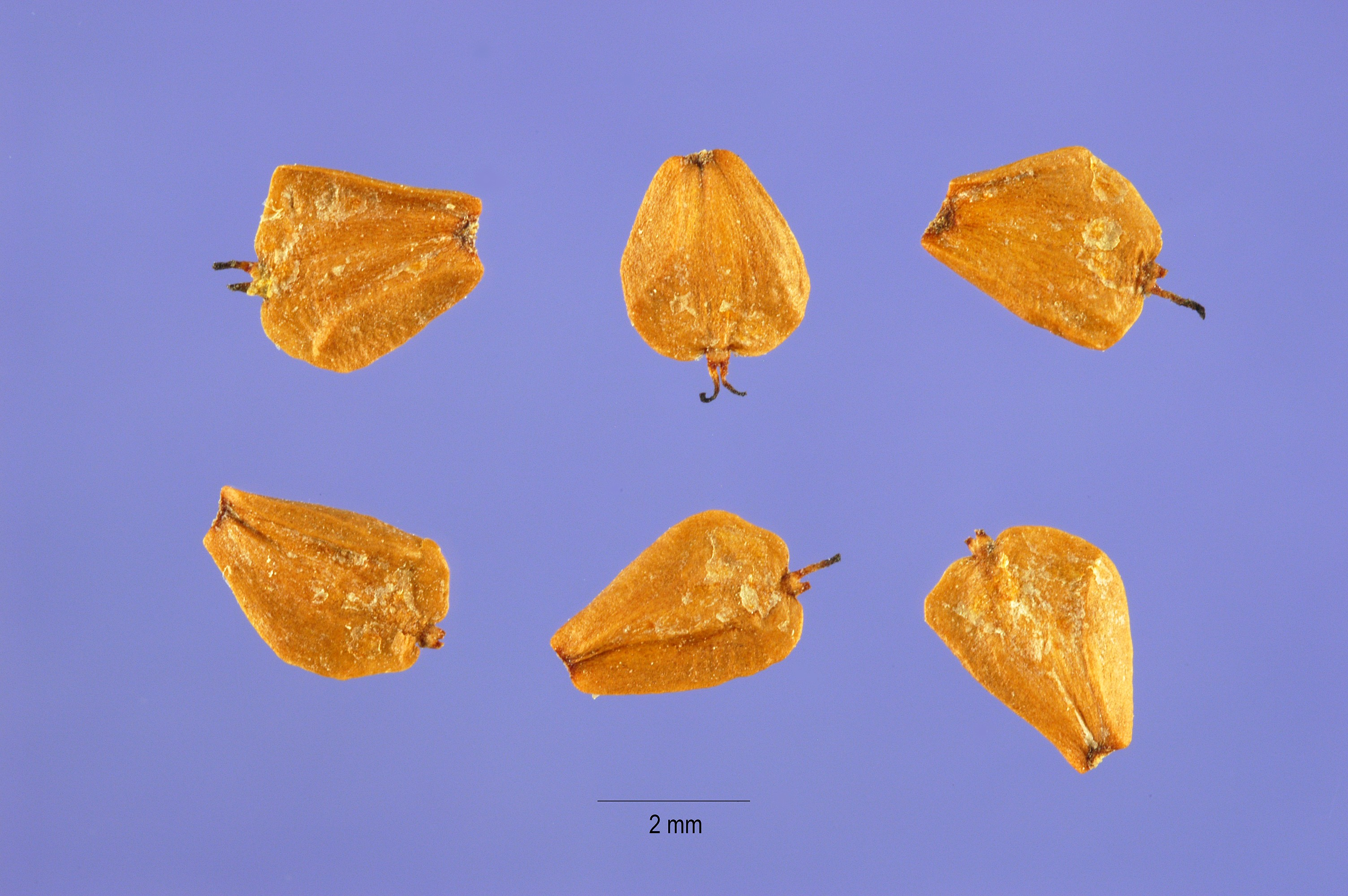 Red Alder. Family Betulaceae. Photograph of seeds. Collected: United Kingdom, England, Kew, Royal Botanic Gardens.